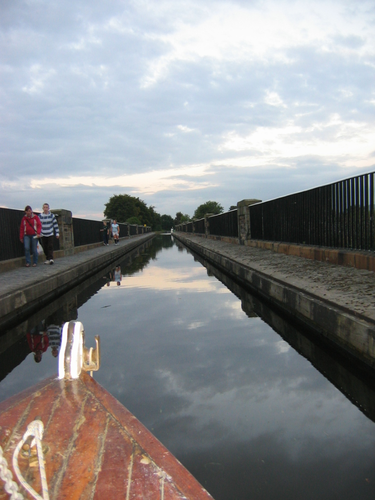 The view of Slateford Aqueduct from a boat on the canal.